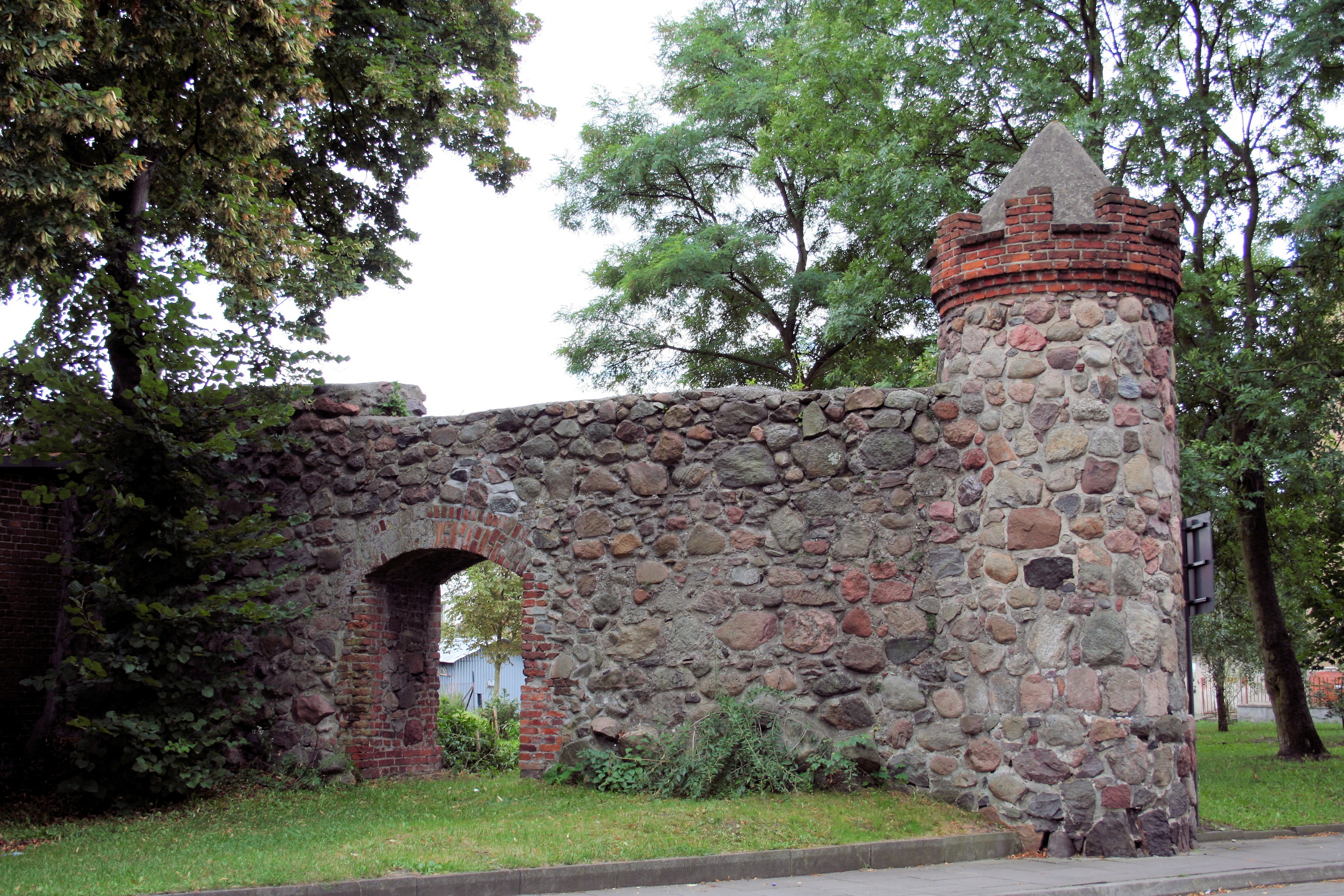 Town walls, Trzcińsko-Zdrój, Poland